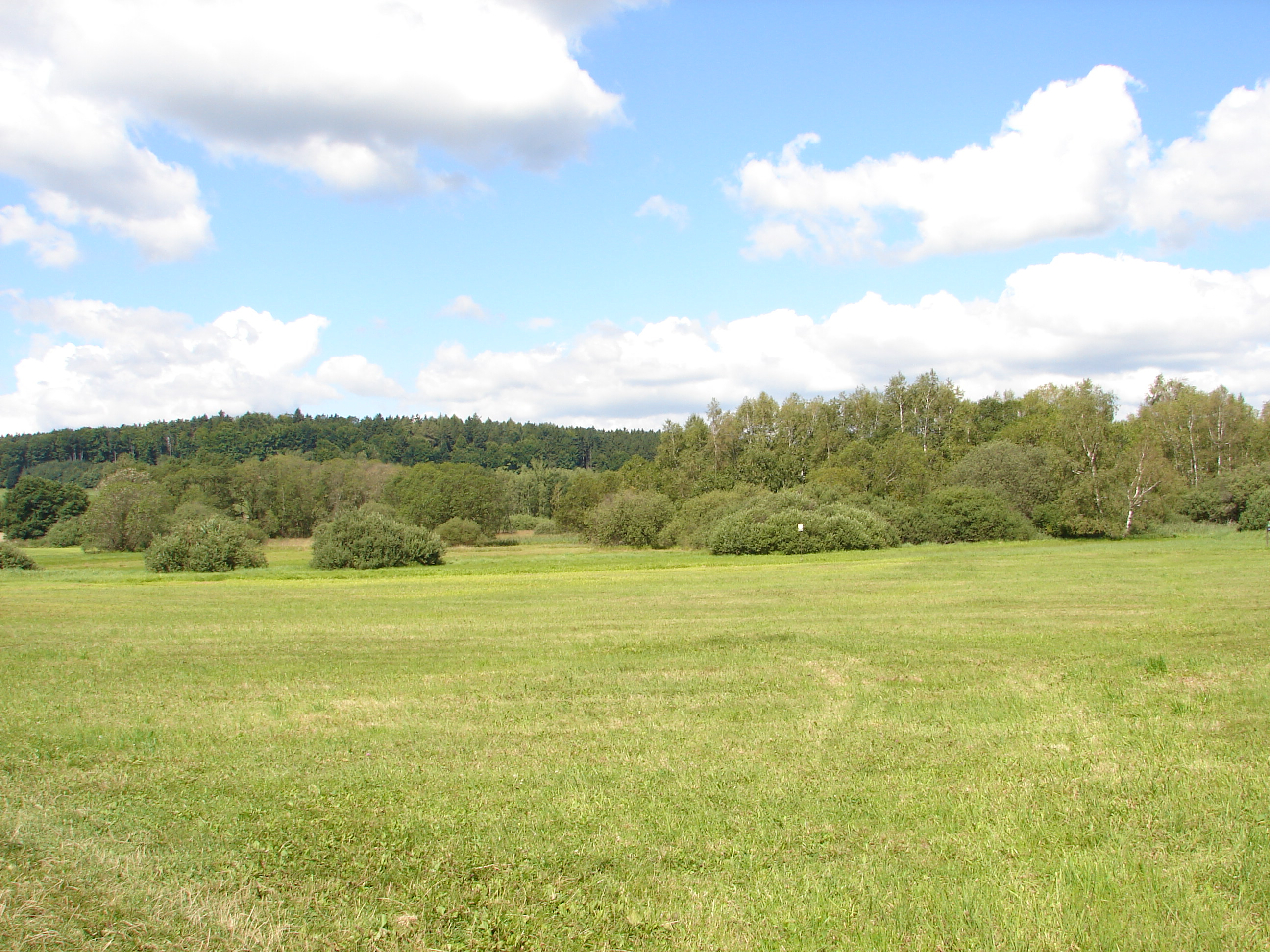 Nature reserve Doupský a Bažantka, Jihlava District, Czech republic.